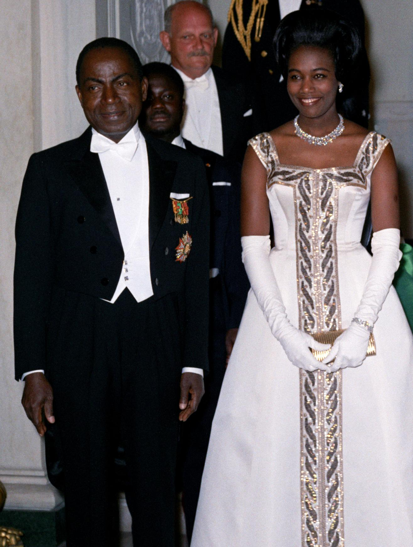 Côte d'Ivoire President Félix Houphouët-Boigny and his wife Marie-Thérèse Houphouët-Boigny on 22 may 1962.